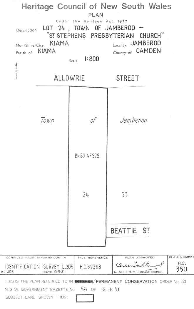 St Stephen's Presbyterian Church, Jamberoo: PCO Plan Number 121